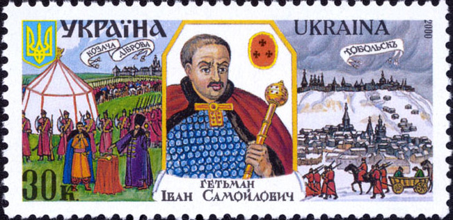 Stamp of Ukraine